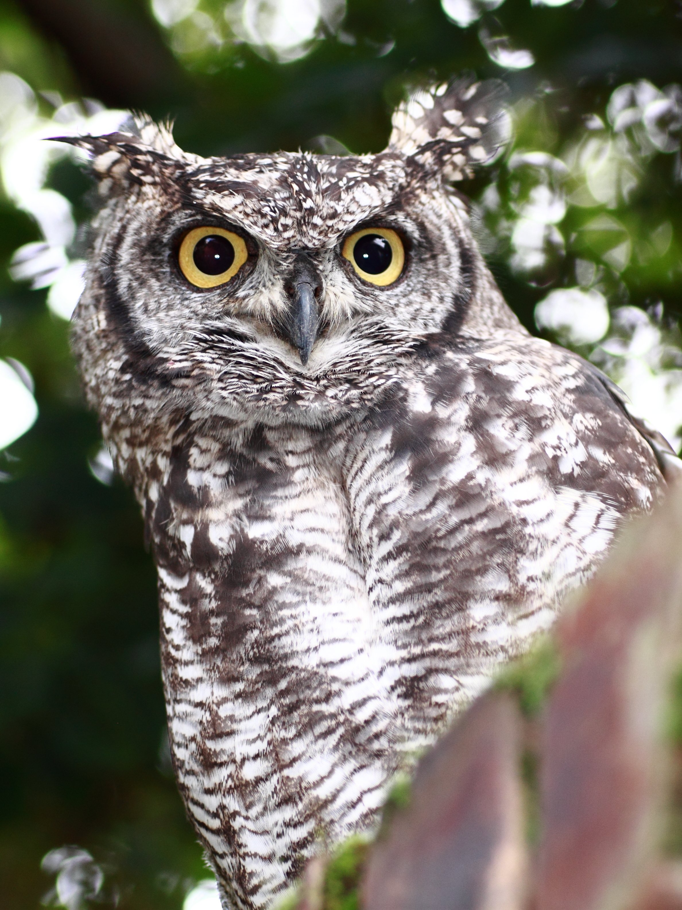 A Spotted Eagle-owl in Johannesburg, South Africa